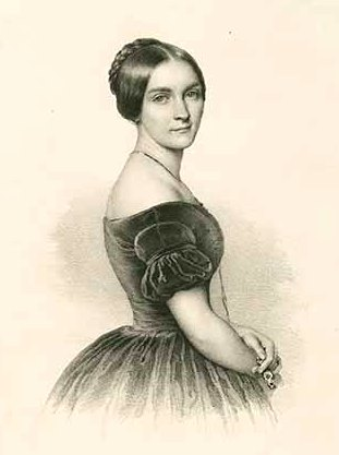 Engraved portrait of the German opera singer Sophie Dietz (1820-1887).